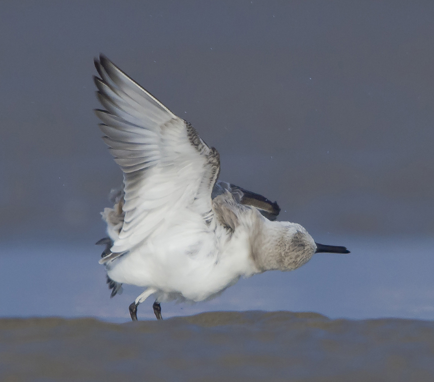 at kutch